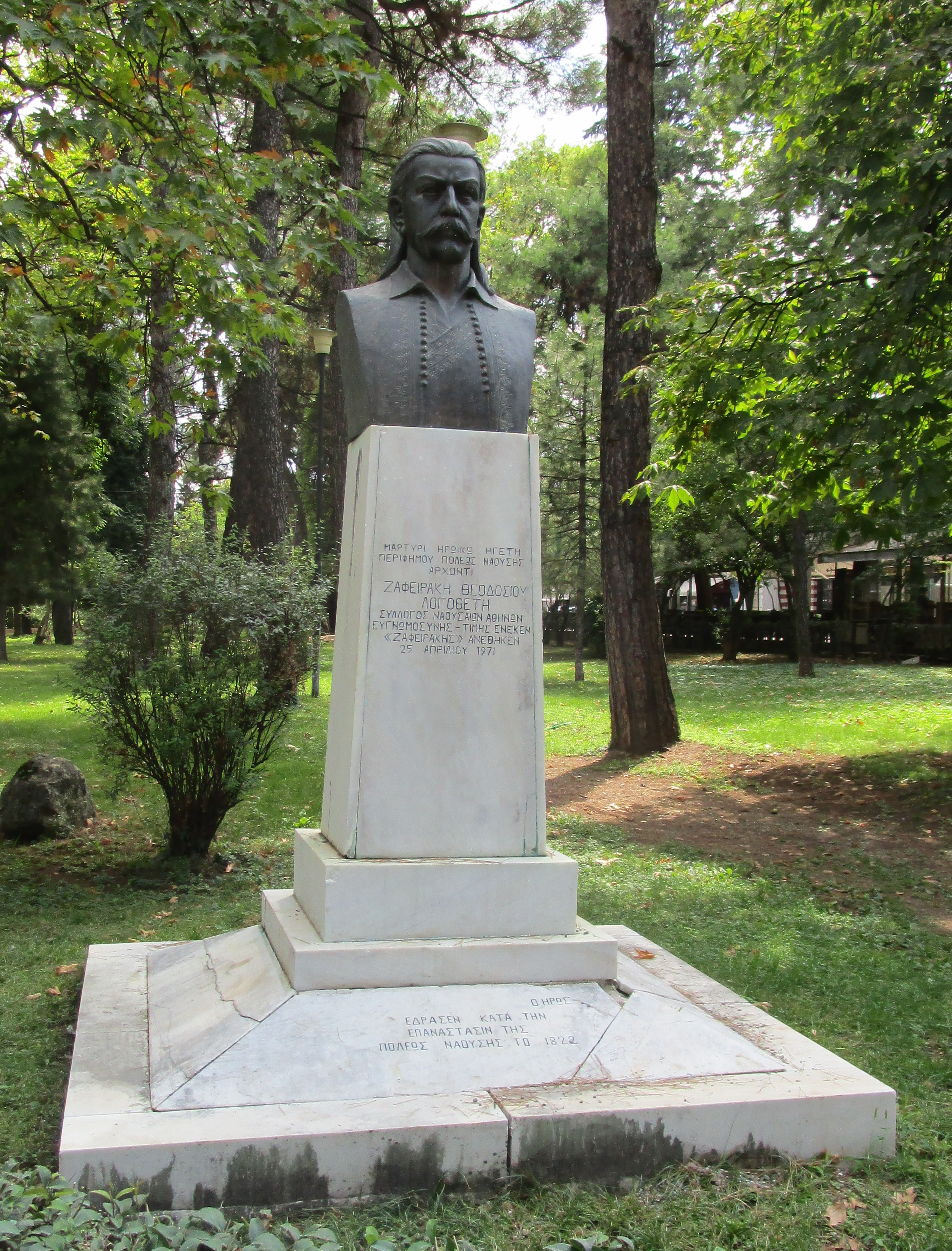 Zaferakis Theodosiu, Negush